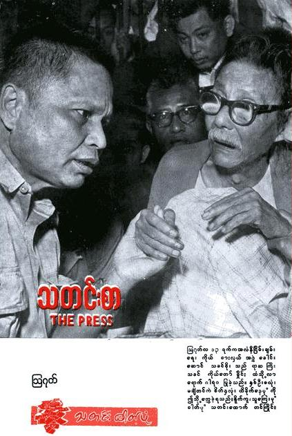 Thakin Kodaw Hmaing and Thakin Soe. Published in September 1963, by the Myanmar Journalists Association. မြန်မာဘာသာ: သခင်စိုး, သခင်ကိုယ်တော်မှိုင်း. မြန်မာနိုင်ငံသတင်းစာဆရာများအသင်း က ထုတ်ဝေသော သတင်းစာ ၁၉၆၃ စက်တင်ဘာလ မှ ကူးယူဖေါ်ပြသည်။